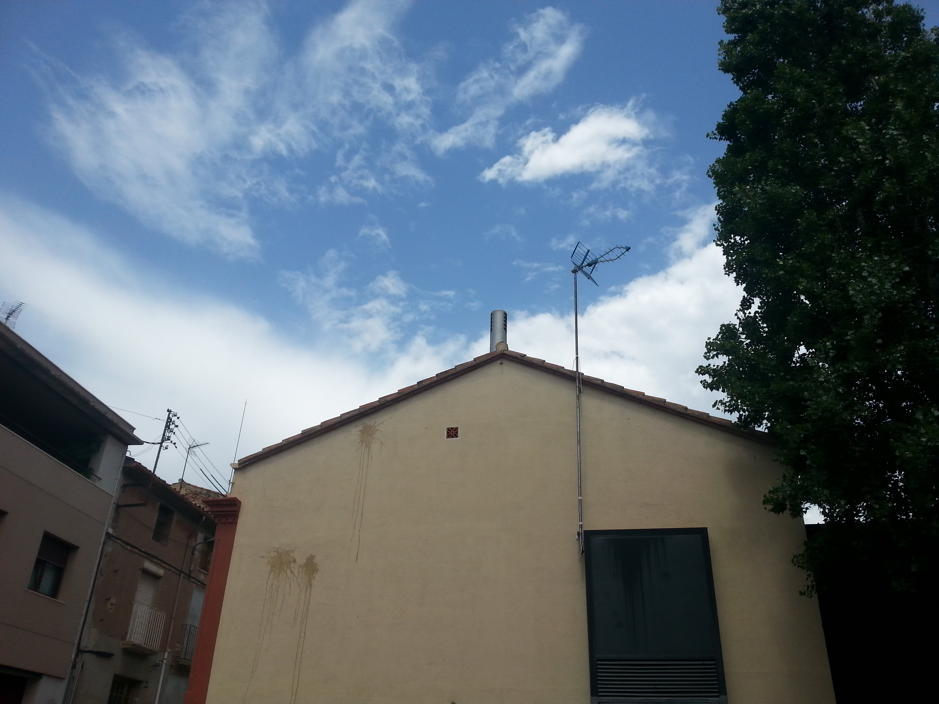 Cal Calisso, a historical building @ Castellar del Vallès, Catalunya.